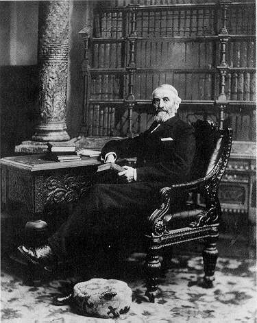 Librarian of Congress Ainsworth Rand Spofford